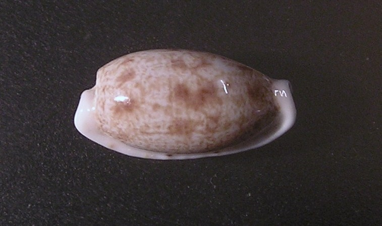 Talostolida teres (Gmelin, 1791) (synonym: Blasicrura teres Gmelin, 1791), a cowry from the family Cypraeidae